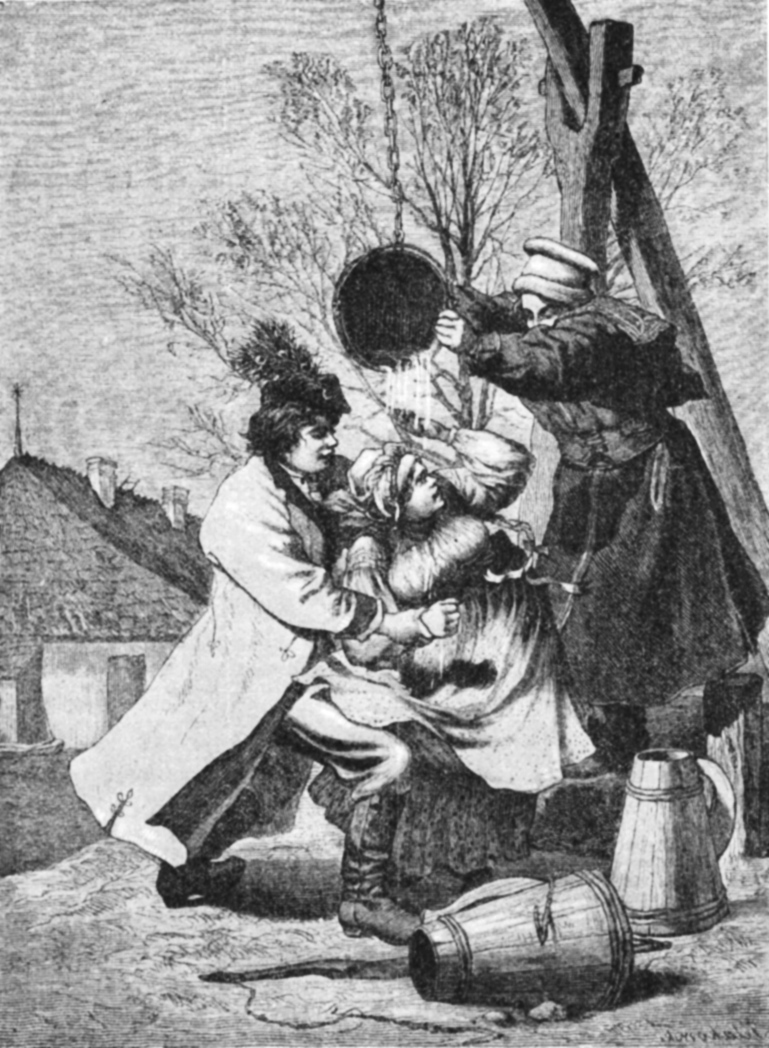 Image from Z. Gloger's "Encyklopedia staropolska"